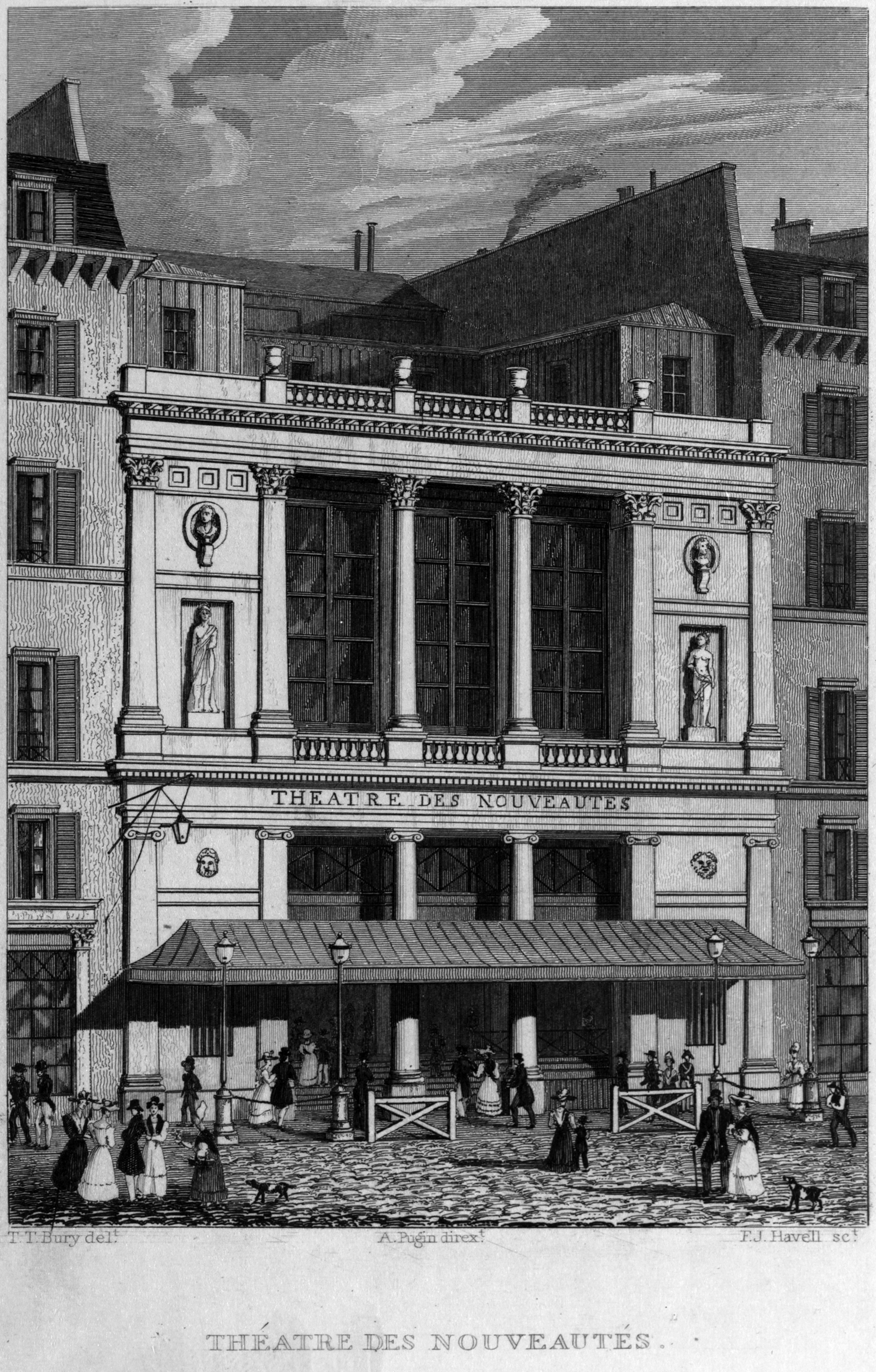 The Théâtre des Nouveautés was inaugurated in 1827 and located on rue Vivienne, across from the Bourse. The total construction costs for this small theater reached 3,467,000 francs and it was built at an elevation in an attempt to preserve the public passage at the site. Due to a lack of business, the theater was forced to close in 1832 and to relocate on multiple occasions. The original building on rue Vivienne was occupied by various theatrical groups throughout the remainder of the 19th century. The current Théâtre des Nouveautés is located on the boulevard Poissonnière, in the ninth arrondissement.